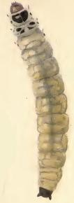 Stainton’s Natural History of the Tineina (1855–1873): Coleophora gnaphalii